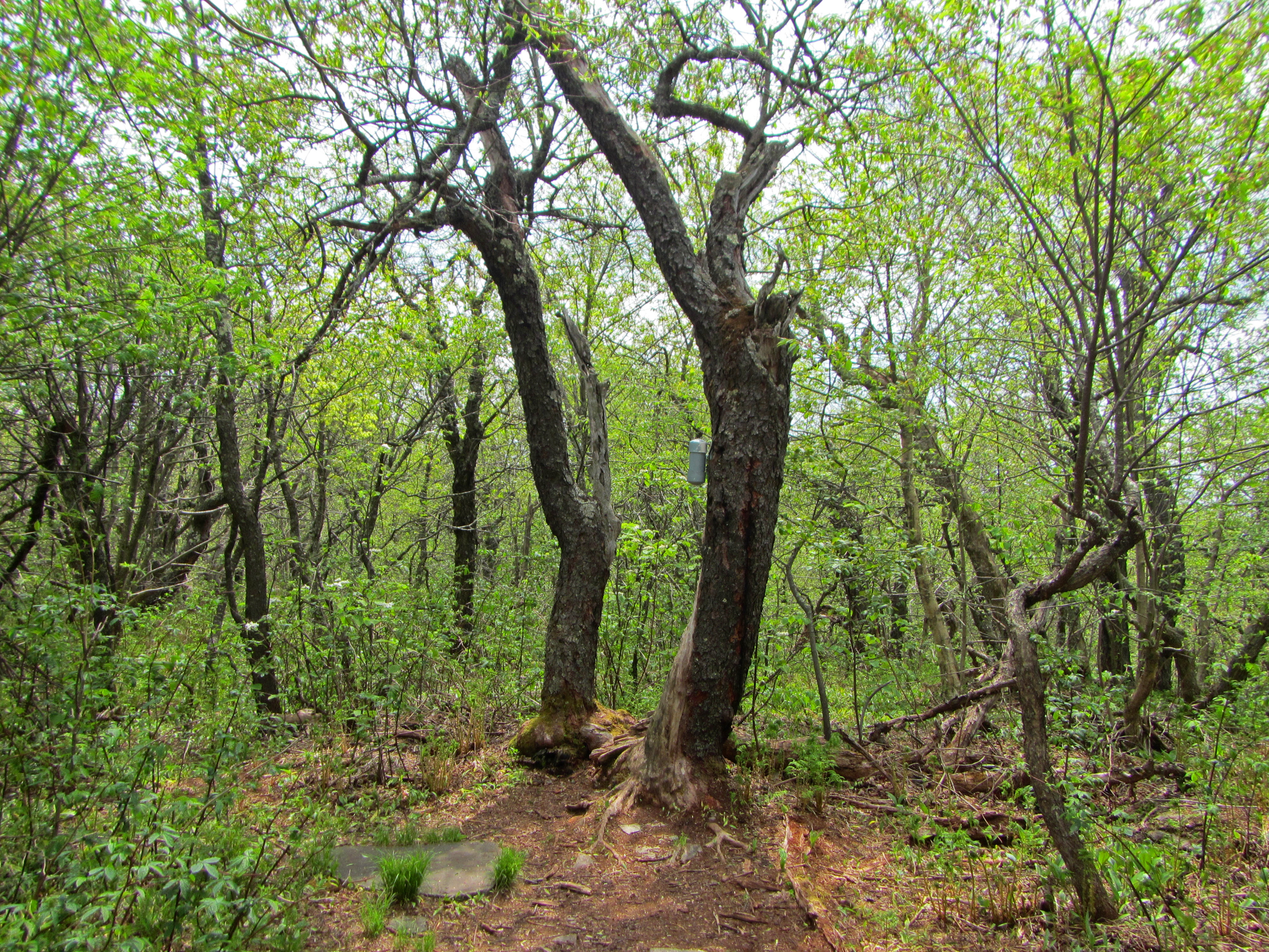 Summit of Vly Mountain, one of the Catskill High Peaks, with canister on tree (it has no official trail to its summit, and this allows hikers to record the climb)